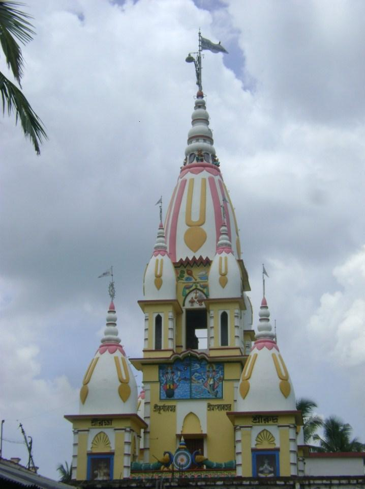 The Spire or Dome of Devananda Gaudiya Math.